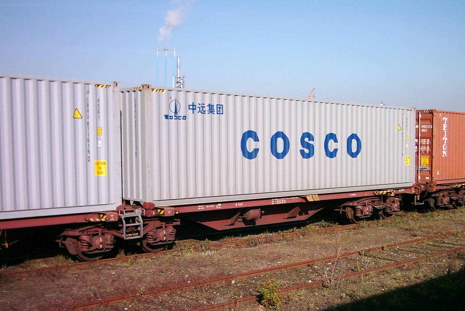 COSCO container, Hamburg, Germany.